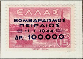 Propaganda stamp issued by occupation authorities in Greece, in memory of the bombing of city of Piraeus by USA and RAF aircrafts, 1944